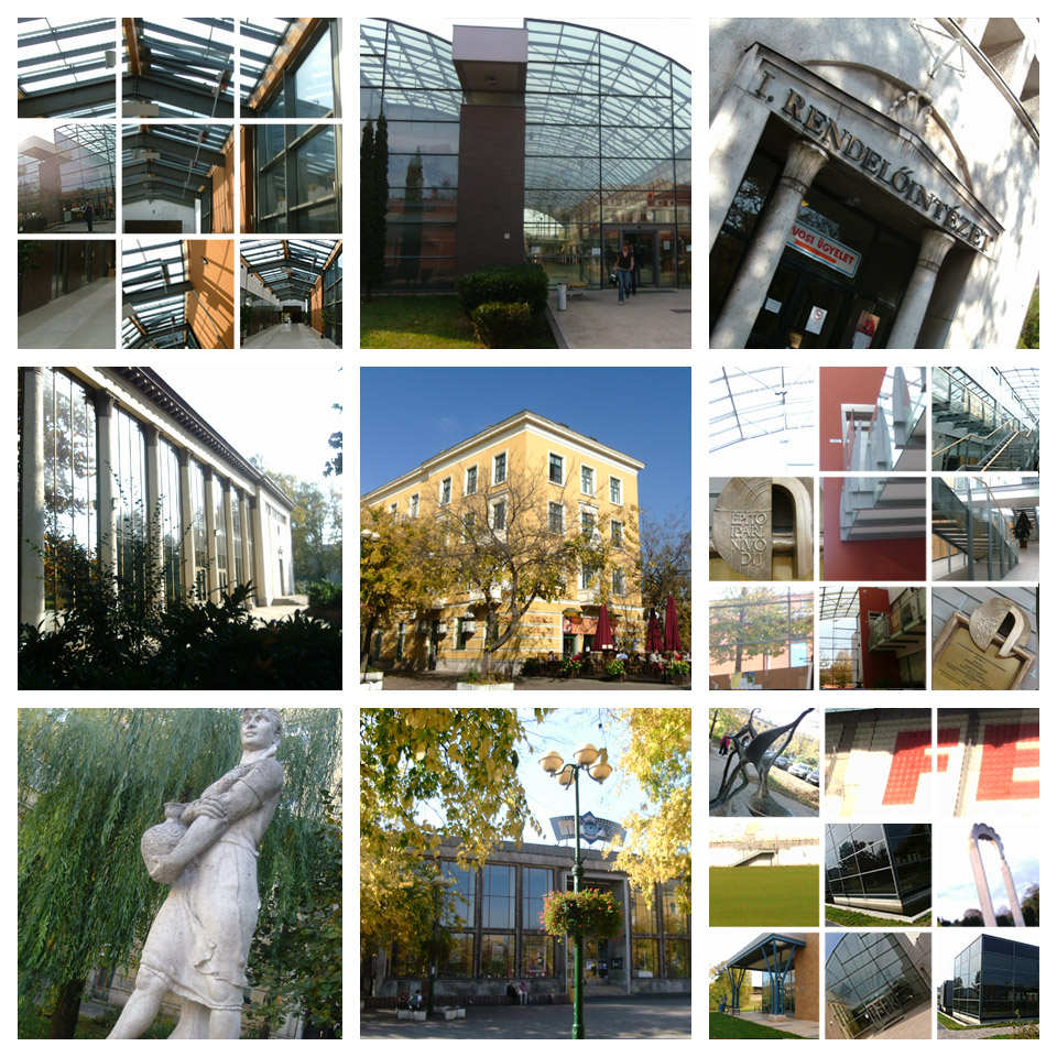 Dunaujvaros Belvaros, City center of Dunaujvaros, Hungary